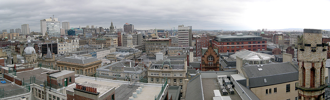 Glasgow city centre panorama from Lighthouse tower, taken with my old Nikon Coolpix 4300